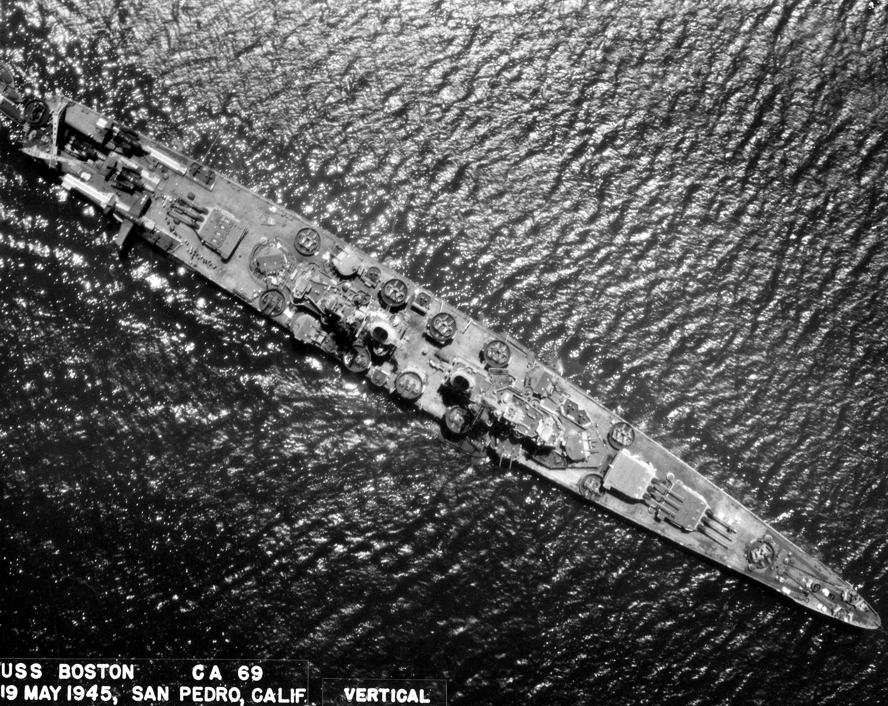 Overhead view of the U.S. Navy heavy cruiser USS Boston (CA-69), 19 May 1945.